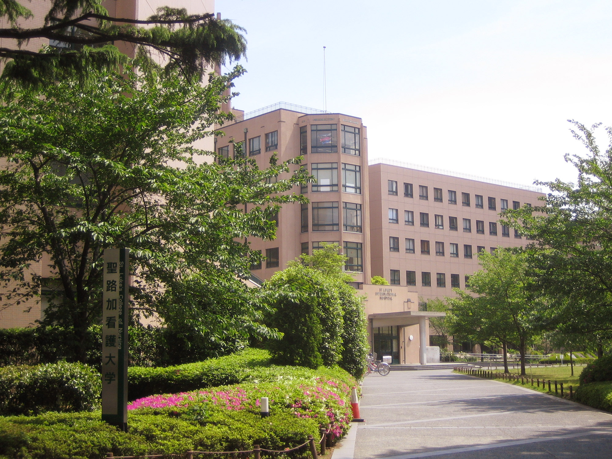 St. Luke's College of Nursing (聖路加看護大学), in Chuo, Tokyo, Japan